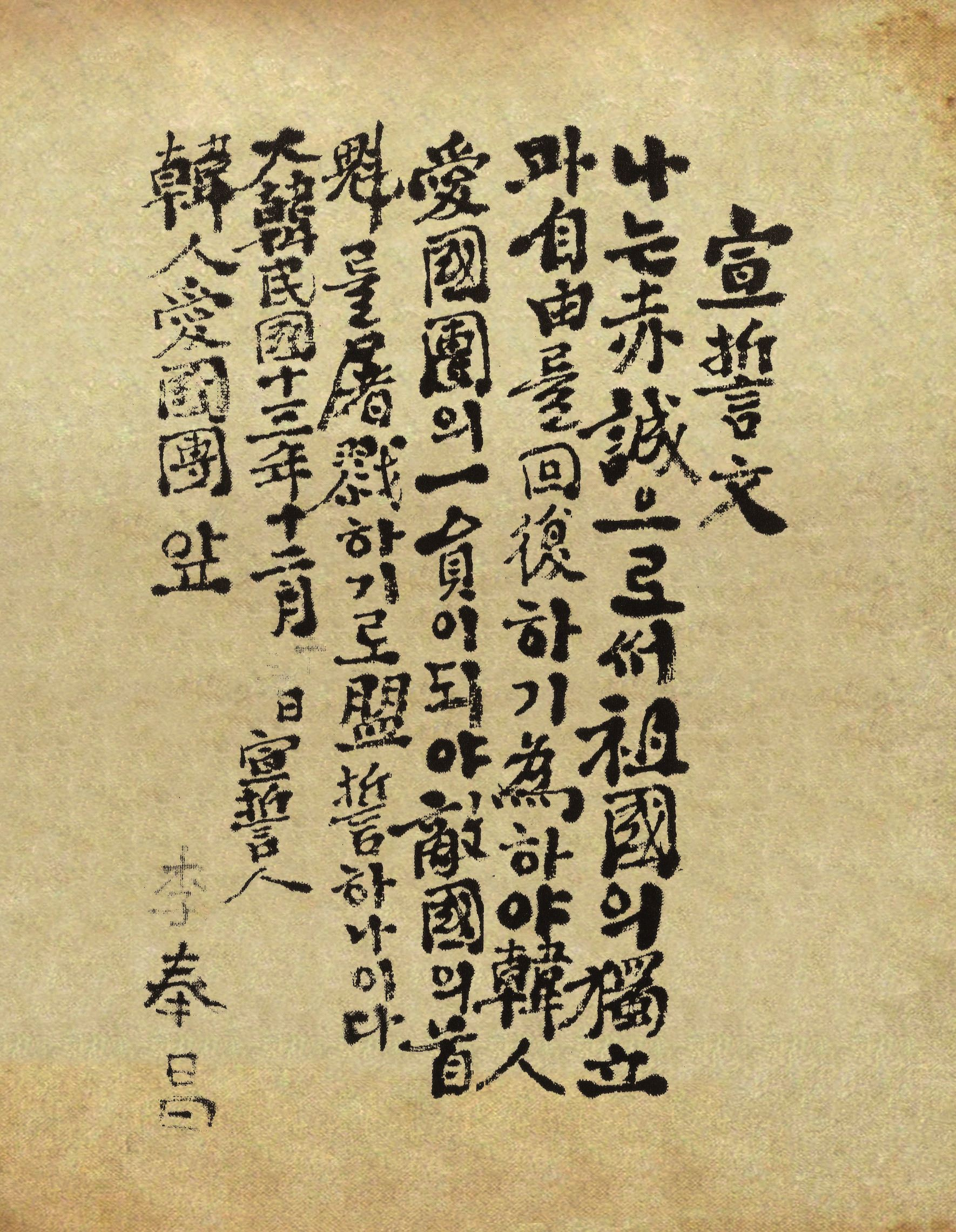 Just before Korean independence activist Lee Bong-chang attempted to assassinate Japanese emperor Hirohito in 1932, he wrote it named "declaration"